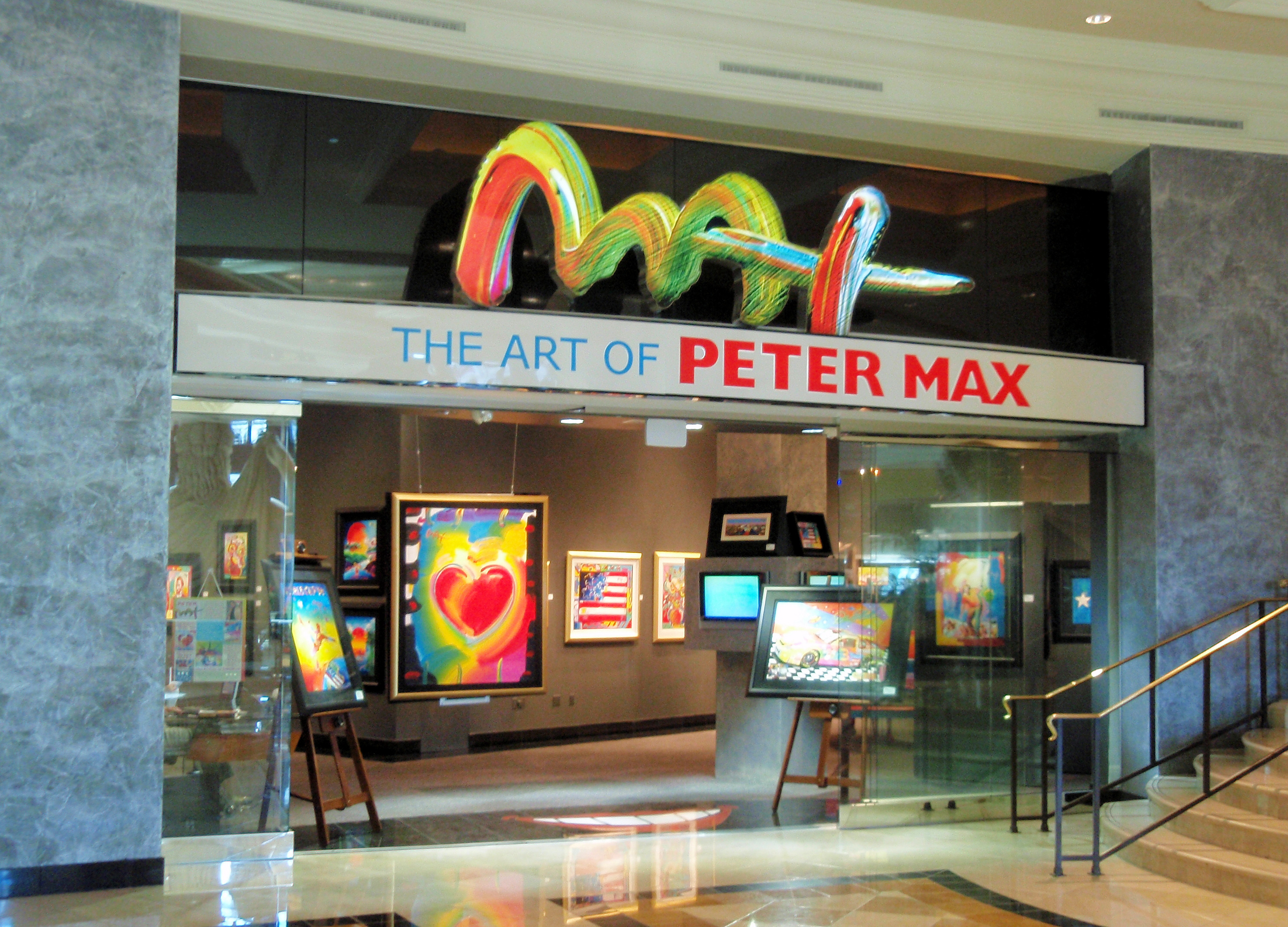 A Peter Max art gallery at The Forum Shops at Caesars in Las Vegas. Photographed by user Coolcaesar on March 31, 2008.